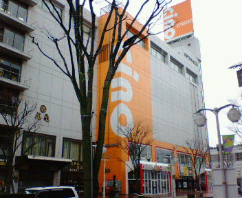 Hachinohe Sky Building『cino-HACHINOHE』